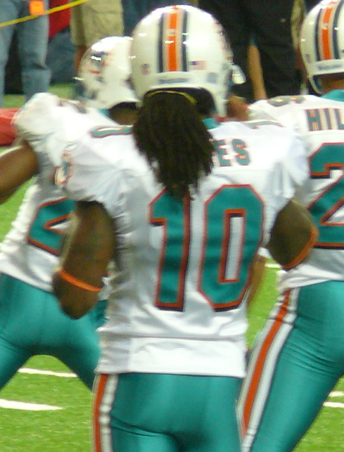 If used somewhere other than Wikipedia, Nelson, by name.